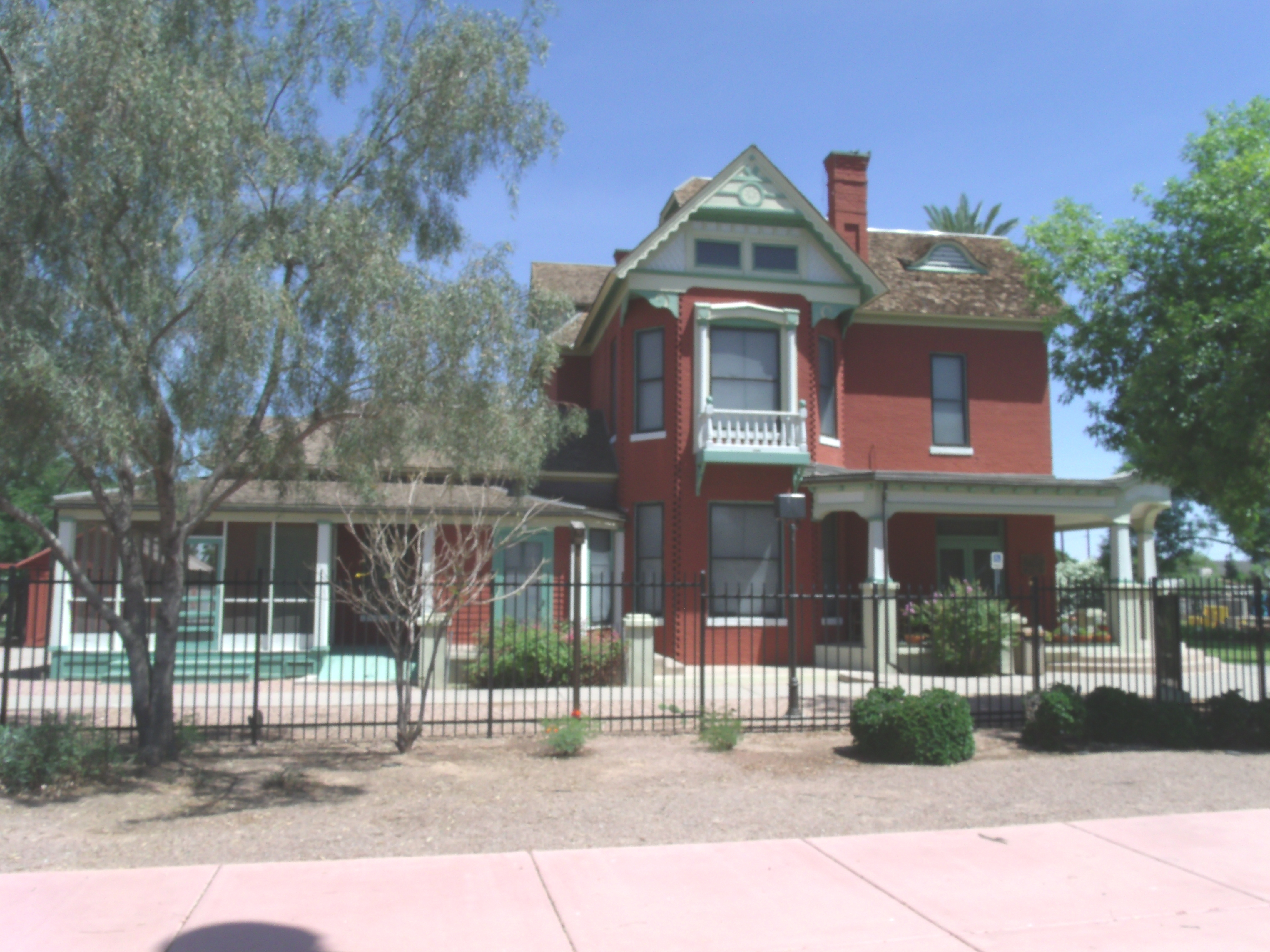 The Niels Petersen House was built in 1892 and is located at 1414 W. Southern Ave. in Tempe, Az. The house was built in 1892 by Niels Petersen, a Danish immigrant who came to Tempe in 1871. He developed a ranch with substantial land holdings, was president of the Farmers and Merchants Bank, co-founder of the Methodist Episcopal Church, and a representative at the 18th Territorial Legislature. Creighton, the architect, worked for many years in Arizona, and among his extant works are the Pinal County Courthouse, Old Main at the University of Arizona, and the Tempe Hardware Building on Mill Avenue in Tempe. It was listed in the National Register of Historic Places on January 5, 1978 refernce #78000553.